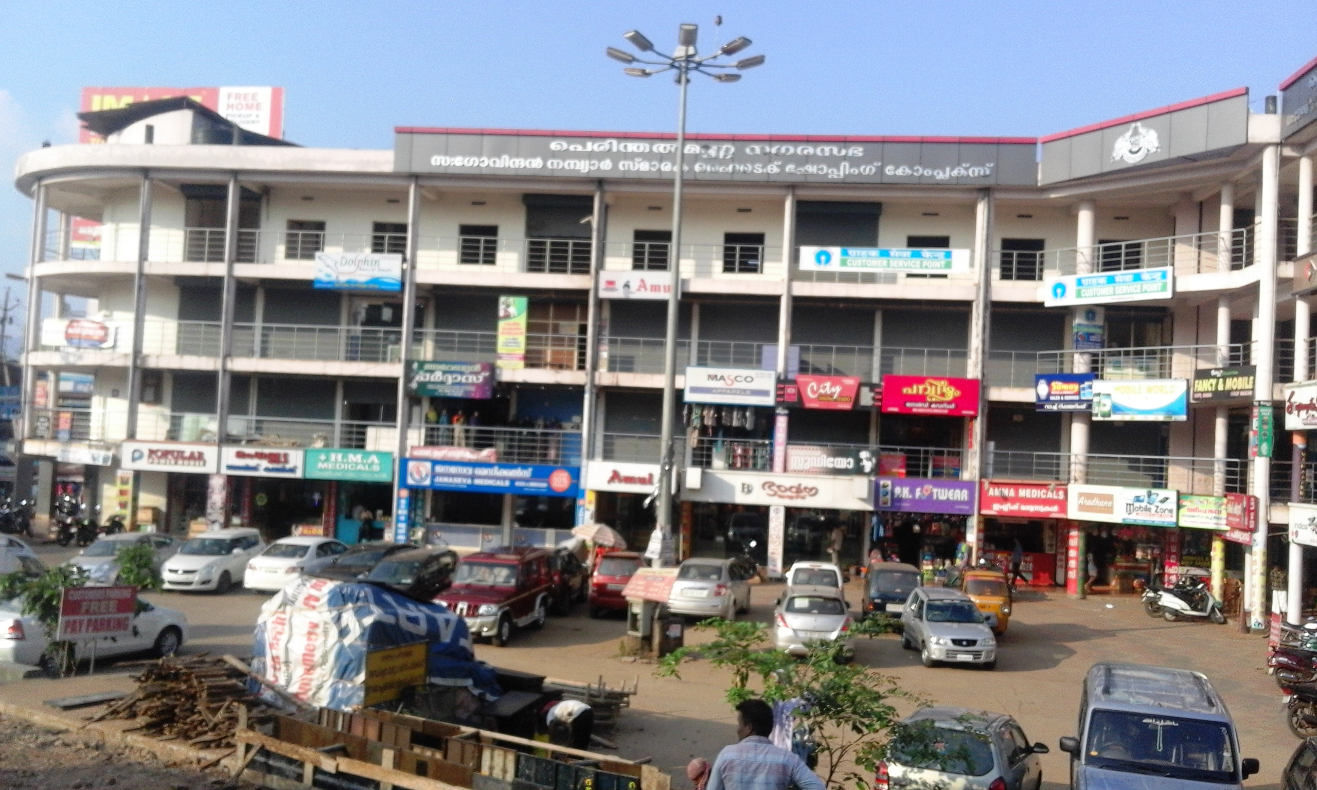 Comrade Govindhan Nambiar Junction, Perinthalmanna, Malappuram Dt, India.